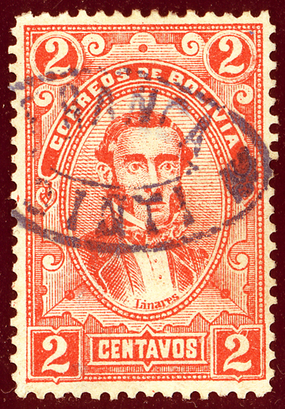 Stamp of Bolivia, 2 centavos issue 1897, litho, oval cancelled FRANCA CINTI (?). Portrait of José María Linares (1808-1861). Michel N°46.